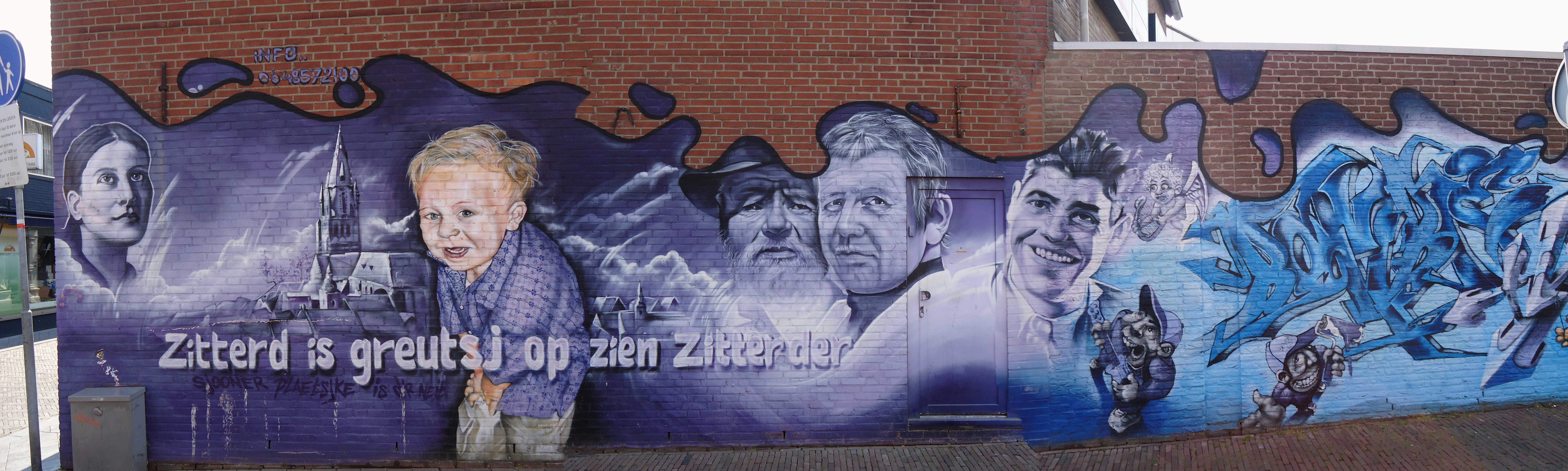 Impressions of Sittard